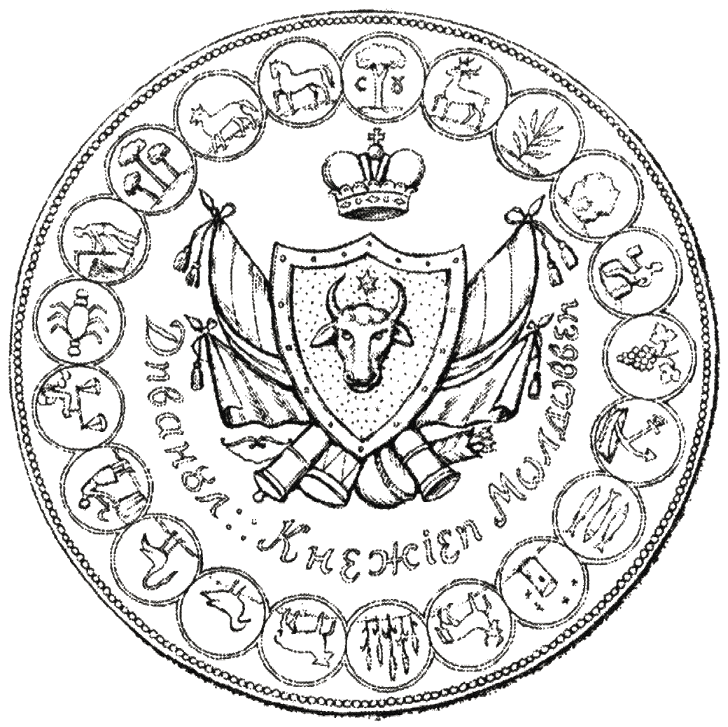 Coat of arms of Moldavia and its counties (1807)